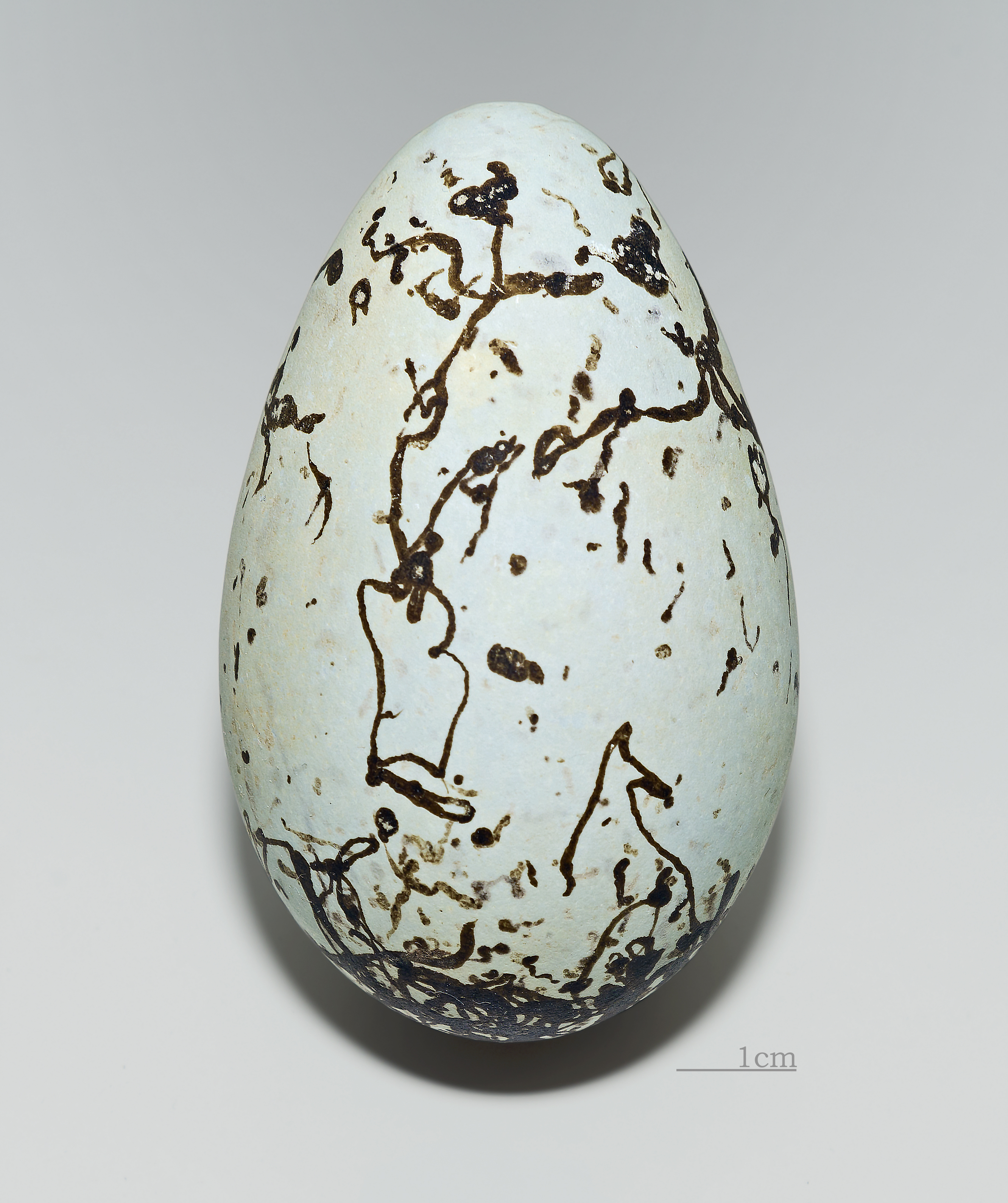 Egg of Common murre. Collection of Jacques Perrin de Brichambaut.